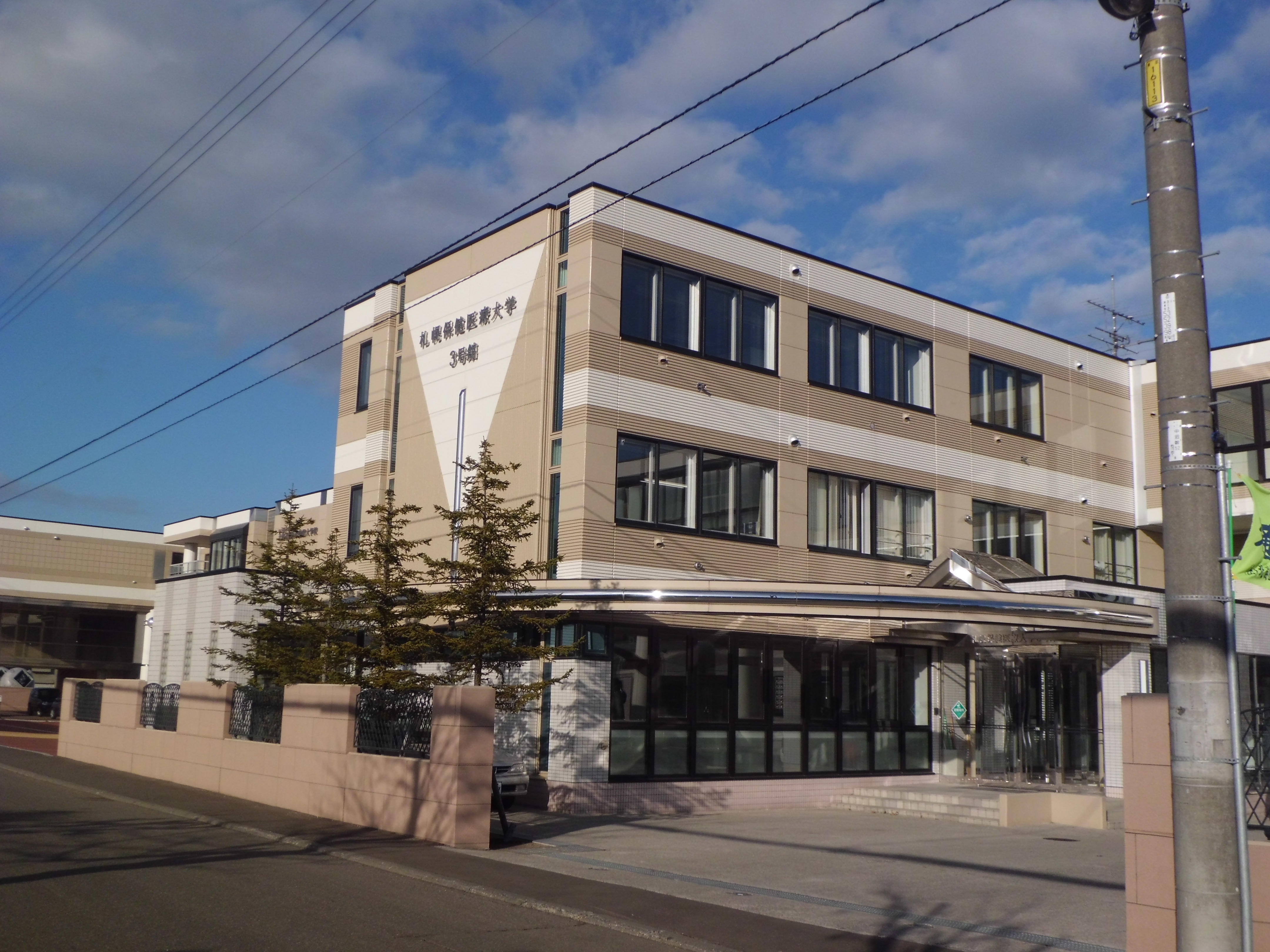 Sapporo University of Health Scineces